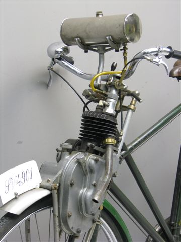 Cyclotracteur bicycle assist engine from approximately 1919.